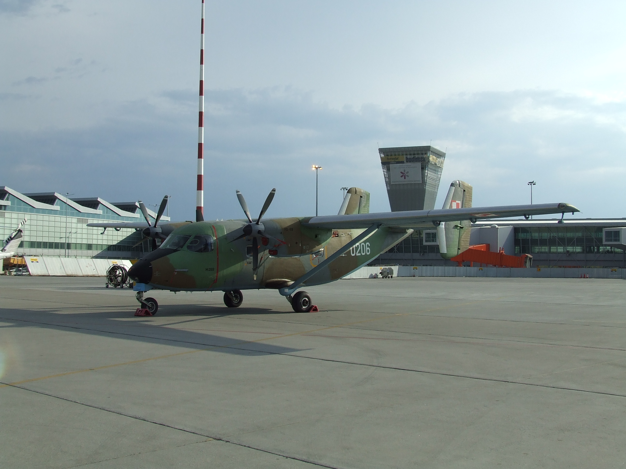 M-28 Bryza on Warszawa Okęcie Airport, polish government version